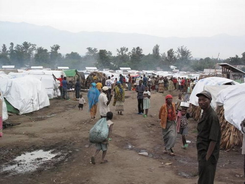 Refugee camp in Kiwanja (DRC)